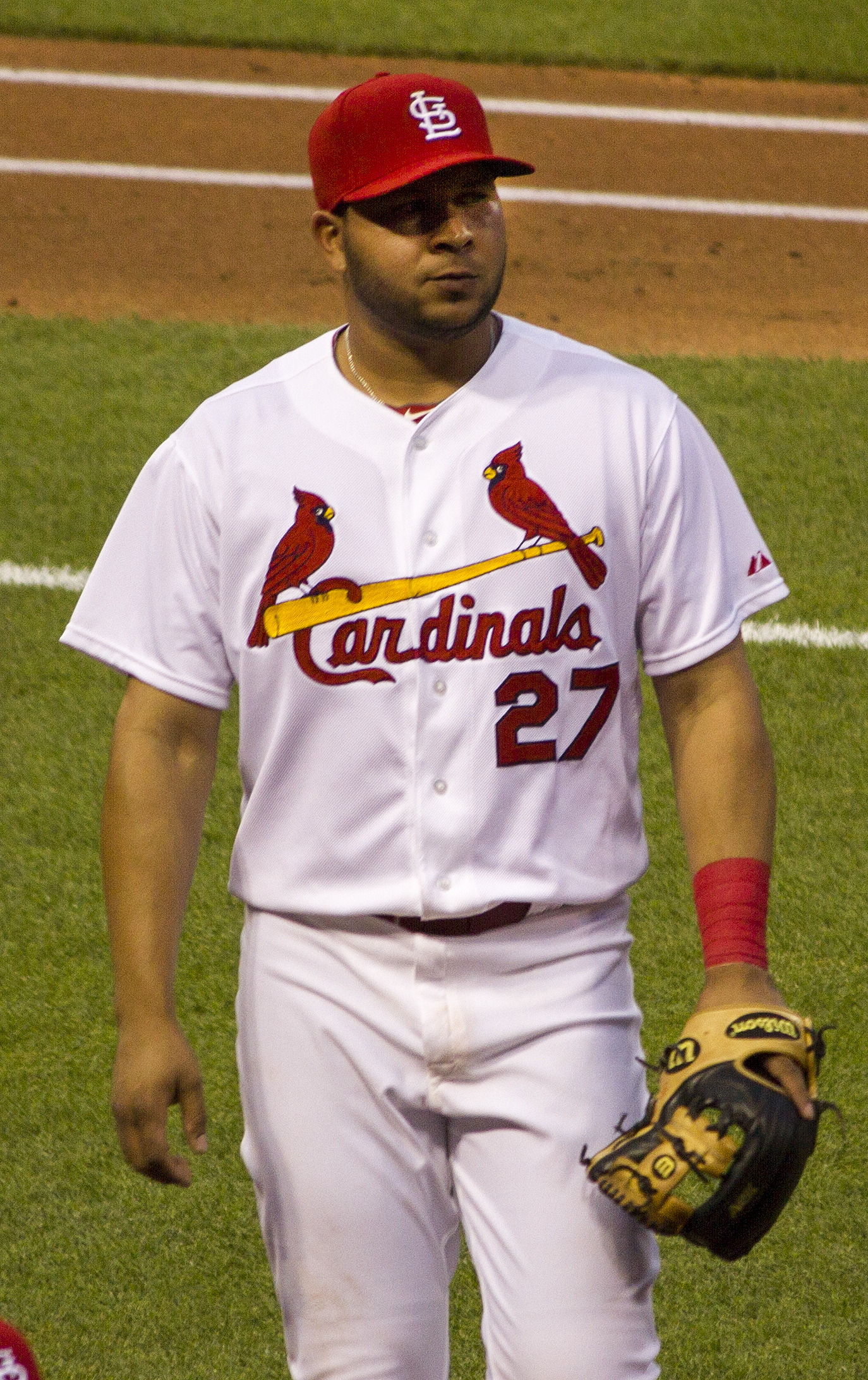 Cardinal player Jhonny Peralta 2014